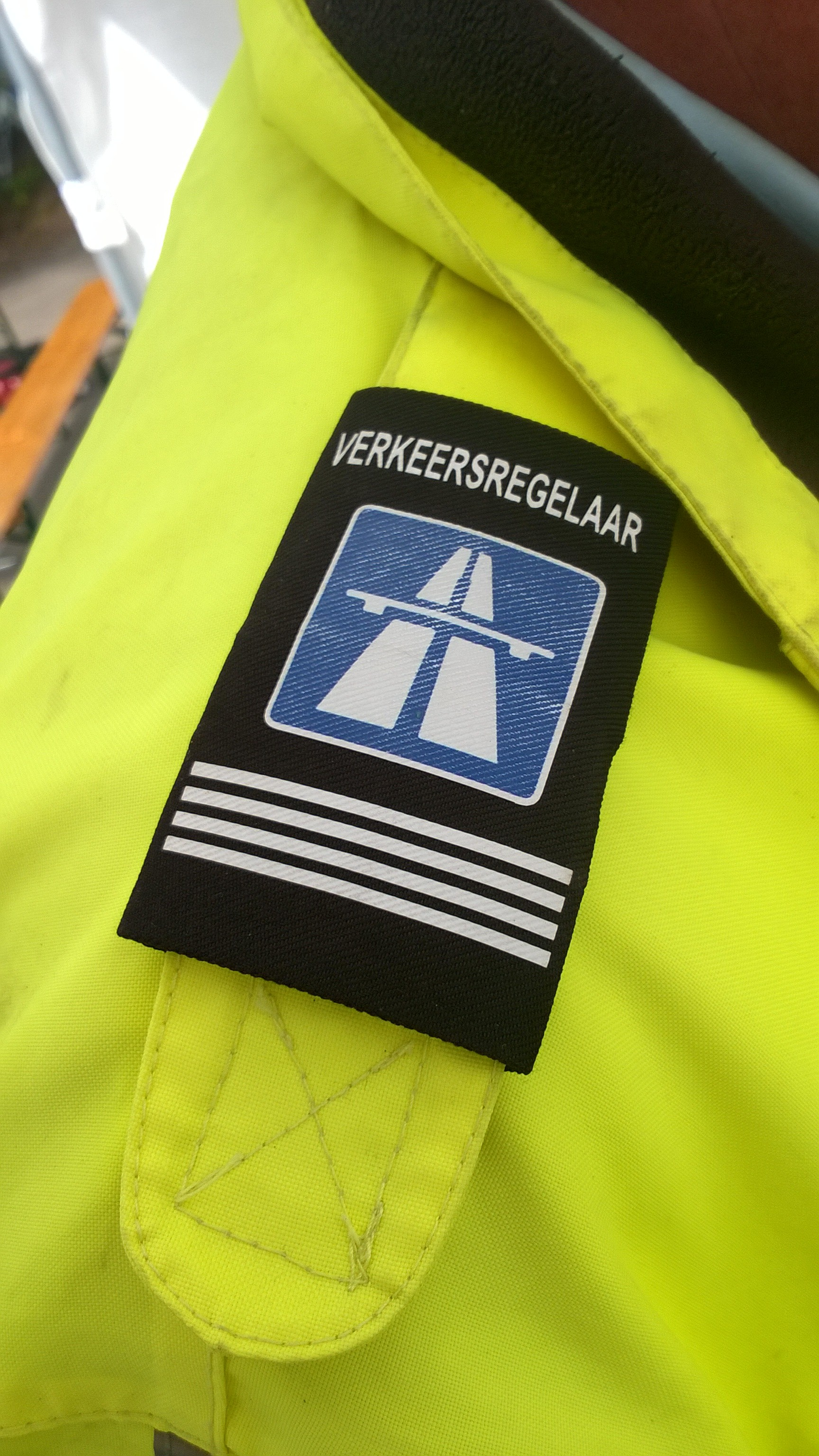 A shoulder strap indicating what this traffic handler is authorised to do. 1 (one) stripe would indicate that the traffic handler is a volunteer with no extra functions, 2 (two) stripes would indicate that the person is a volunteer traffic handler with extra functions, 3 (three) stripes would indicate that the person wearing it is a professional traffic handler, and 4 (four) stripes would indicate that the person wearing it is a professional traffic handler with extra functions. As this person has 4 (four) stripes on their epaulette this indicates that they are a private contractor hired by the organisation of Middeleeuws Winschoten in the Groninger city of Winschoten, Oldambt to perform both traffic handling as well as additional functions for the event.